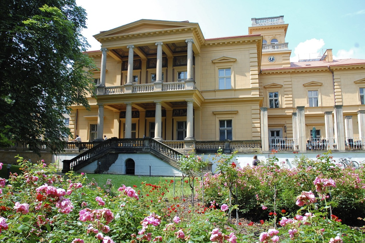 Neorenaissance villa of Vojtěch Lanna, Prague.